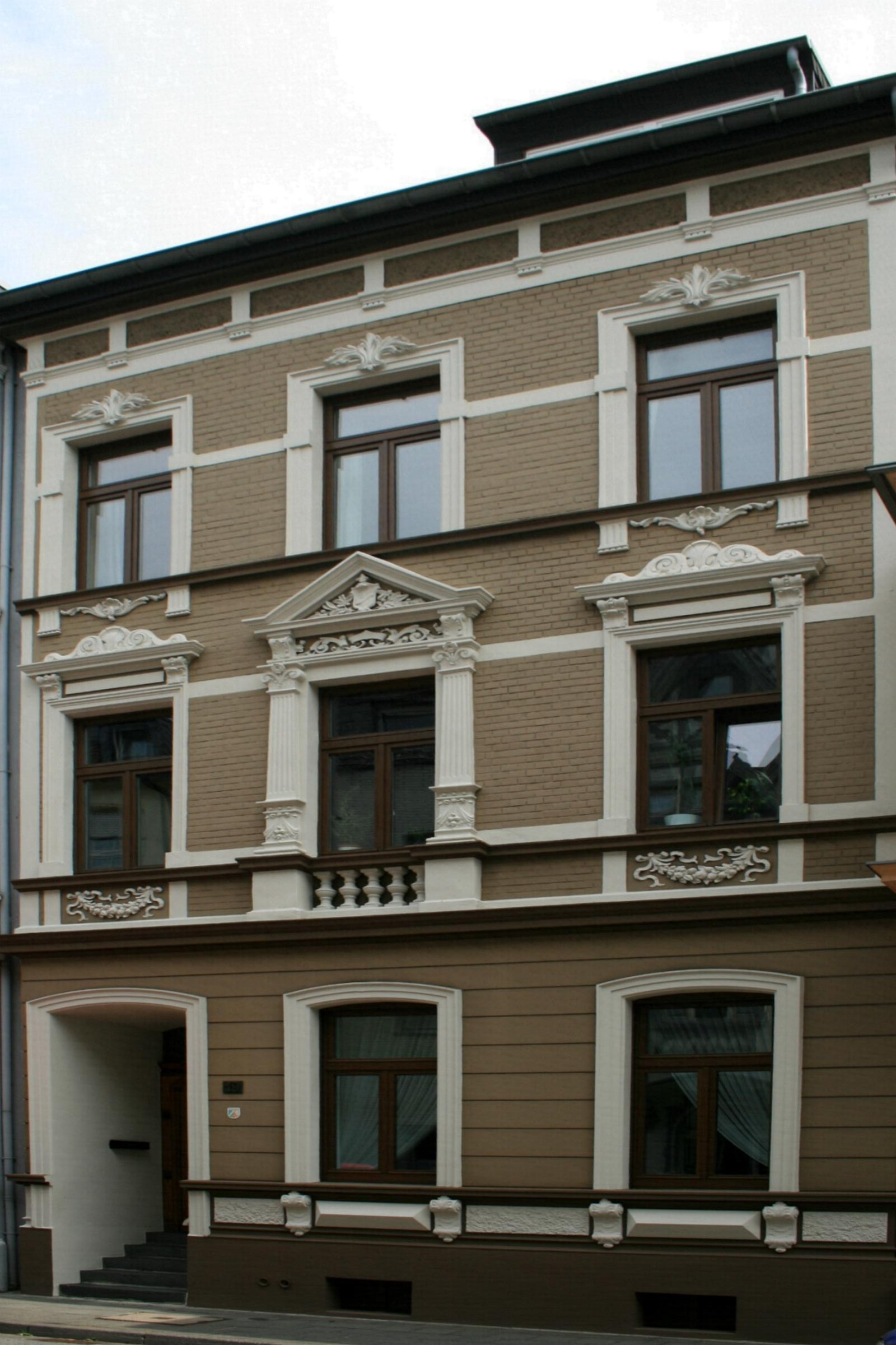 Cultural heritage monument No. B 120 in Mönchengladbach